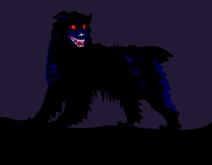 A ghostly Black Dog.